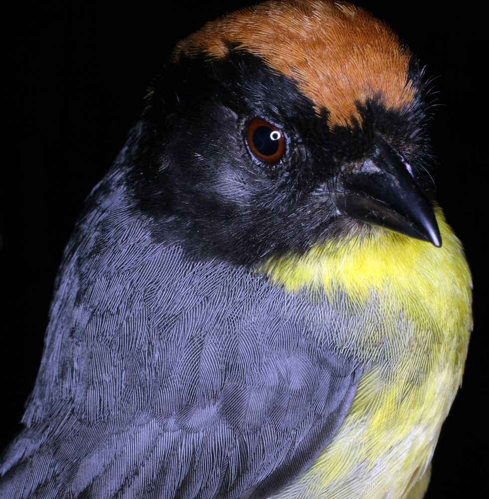 Atlapetes latinuchus nigrifrons Birds of Serranía de Perijá of Colombia and Venezuela (Ornitologia Colombiana [2014] 14: 62–93)